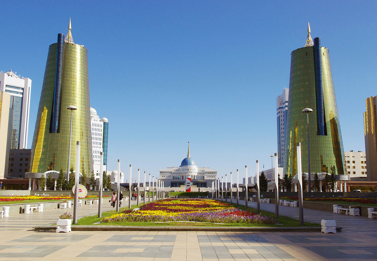 Central Downtown Nur-Sultan: looking toward the Ak Orda from the Bayterek tower.